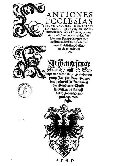 Title page of Johann Spangenberg's Cantiones Ecclesiasticae/Kirchengesenge Deudsch published in Magdeburg in 1545